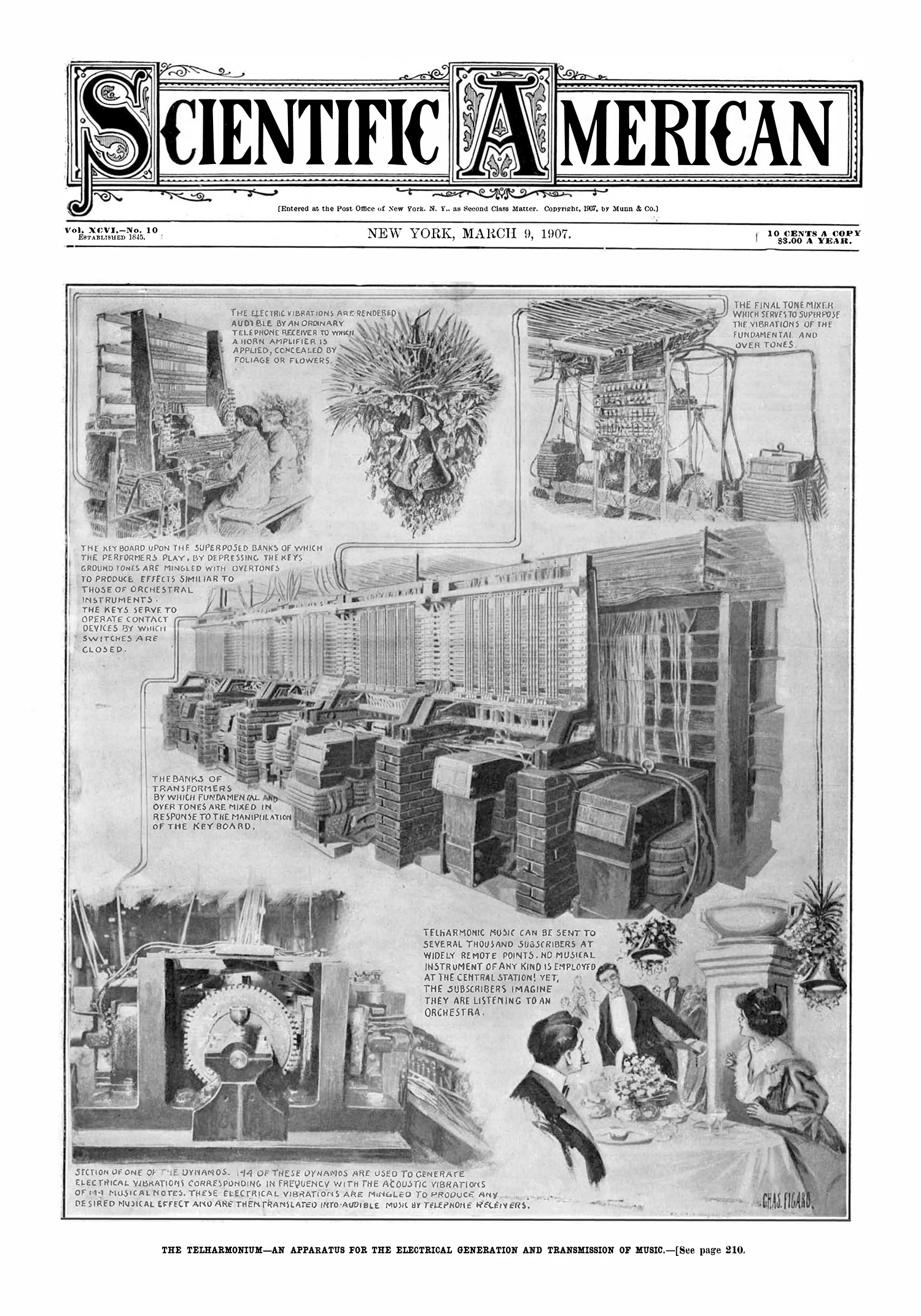 The Telharmonium depicted on the front page of Scientific American.